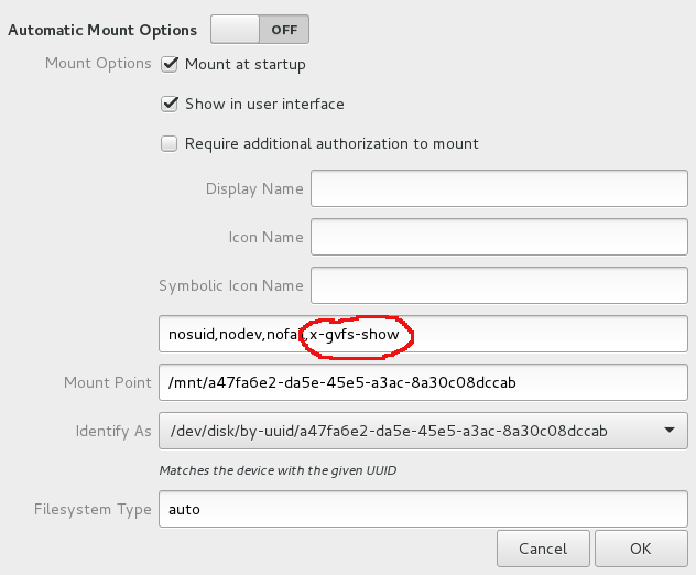 Screenshot of GNOME Disks. The option x-gvfs-show determines whether a mounted file system (partition, device) is shown or not GNOME Files. The option actually configures gvfs-udisks2-volume-monitor, which is part of GVfs. and